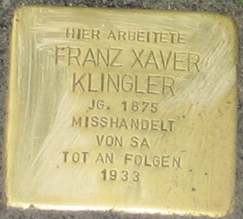 "Stolperstein" in honour to Franz Klingler, 1875-1933, Coburg, Germany